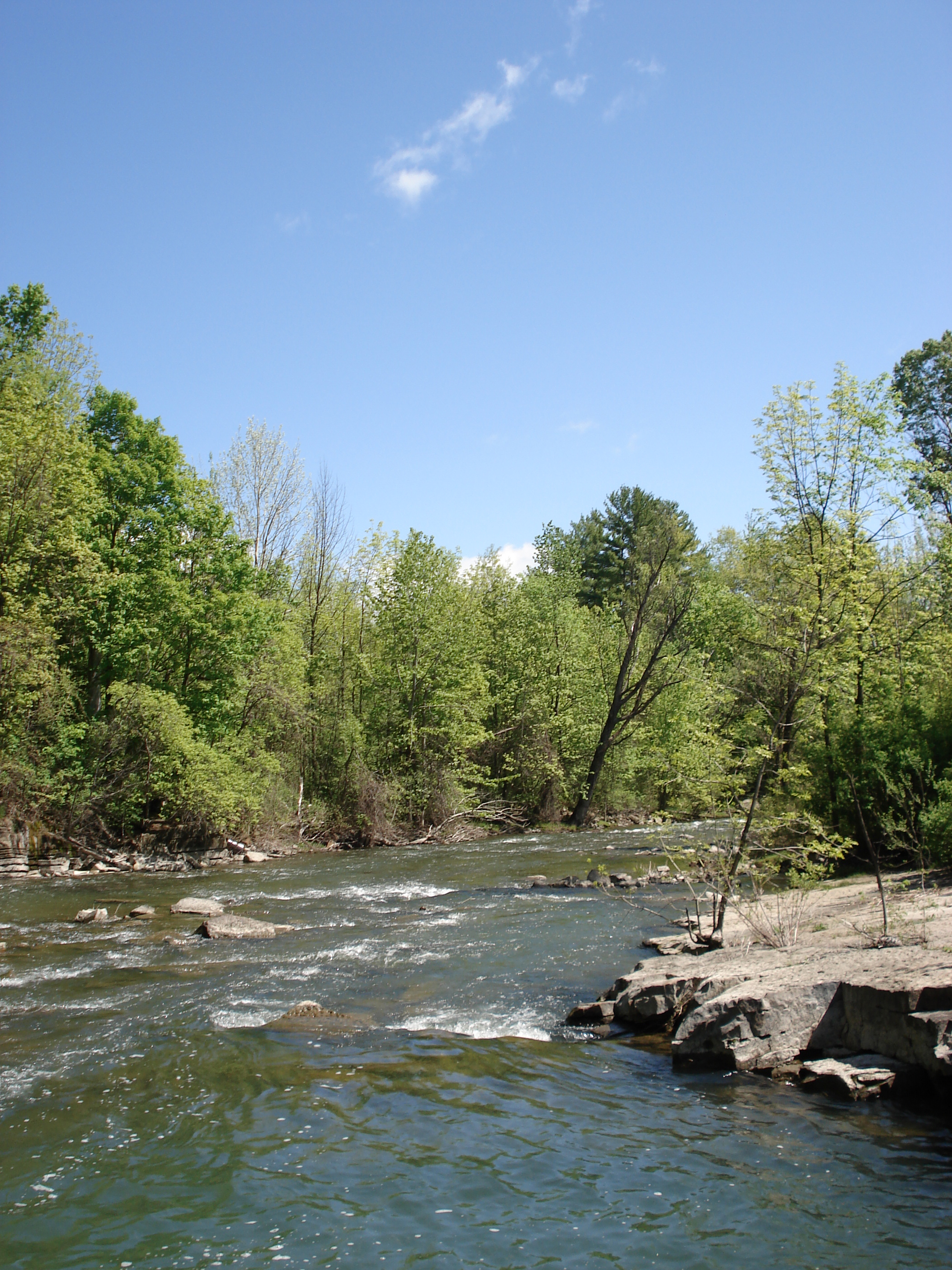 Green trees and blue sky combine with the LaChute River to create beautiful, peaceful scenery in Ticonderoga, New York.